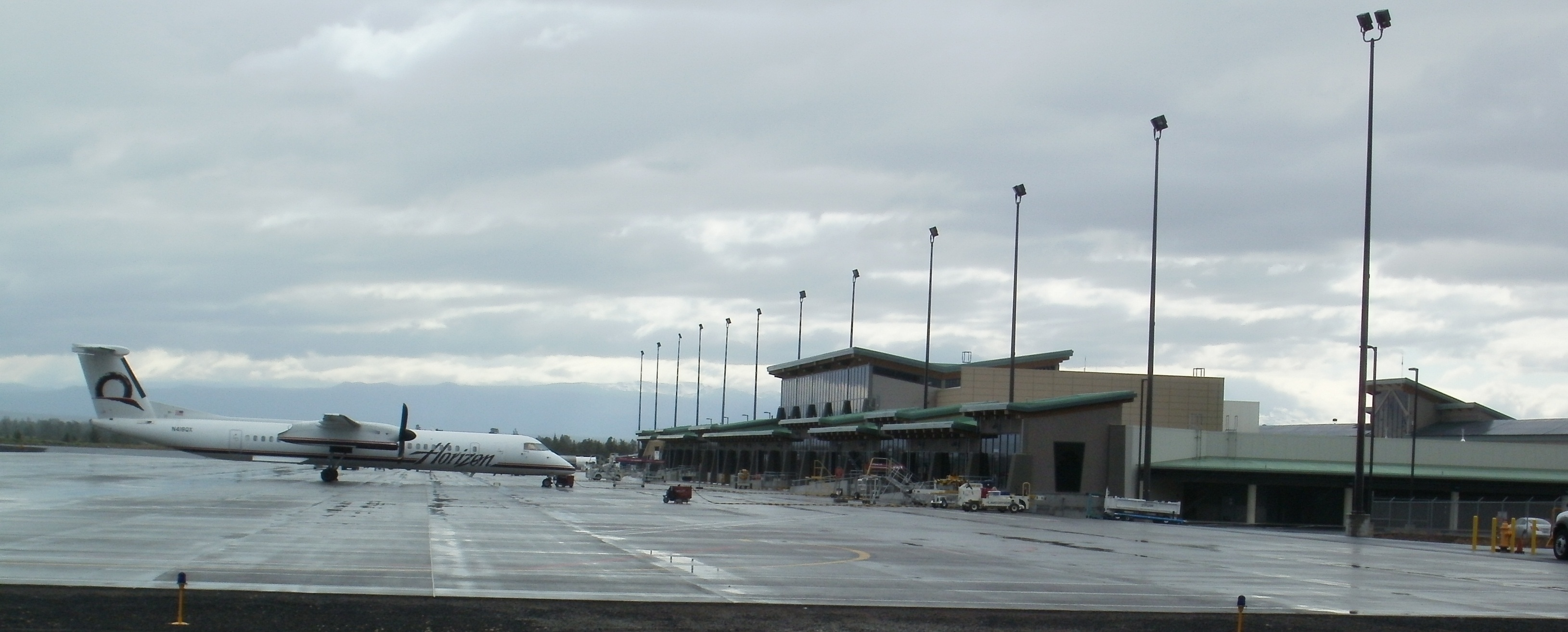 KRDM airport passenger terminal expansion, 2010.